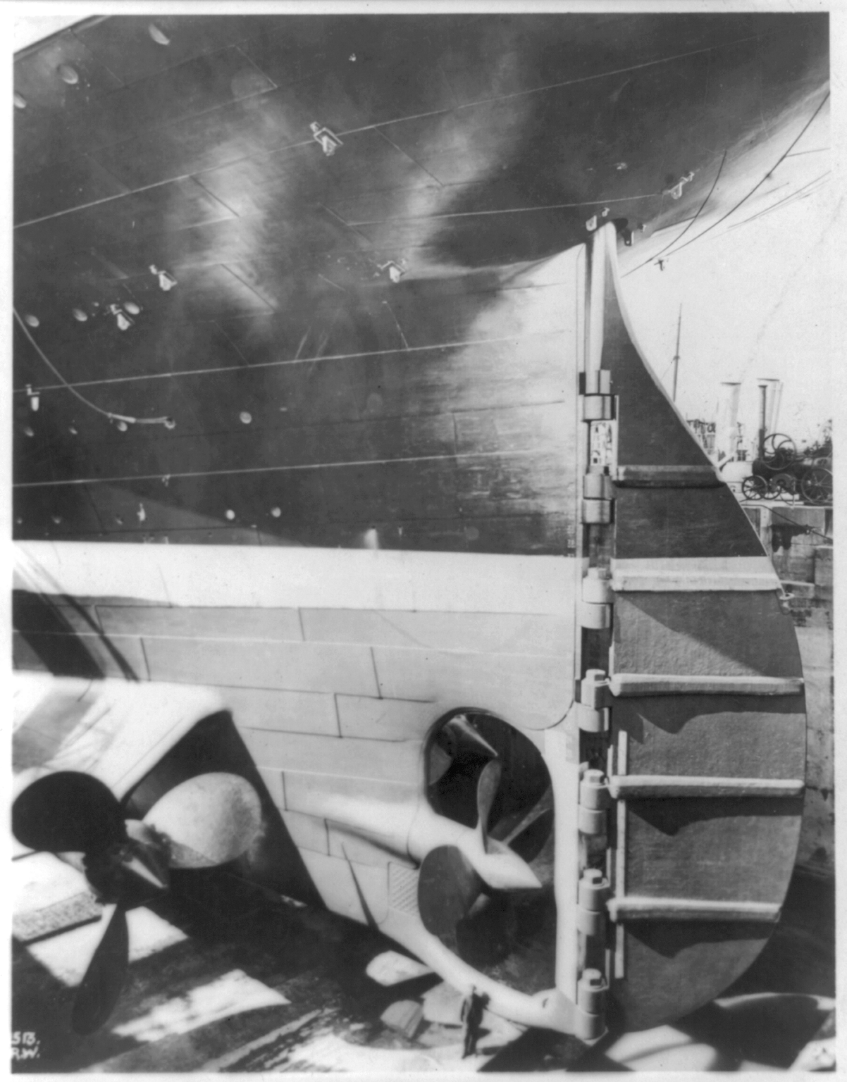 View of the stern and rudder of the S.S. Olympic in drydock